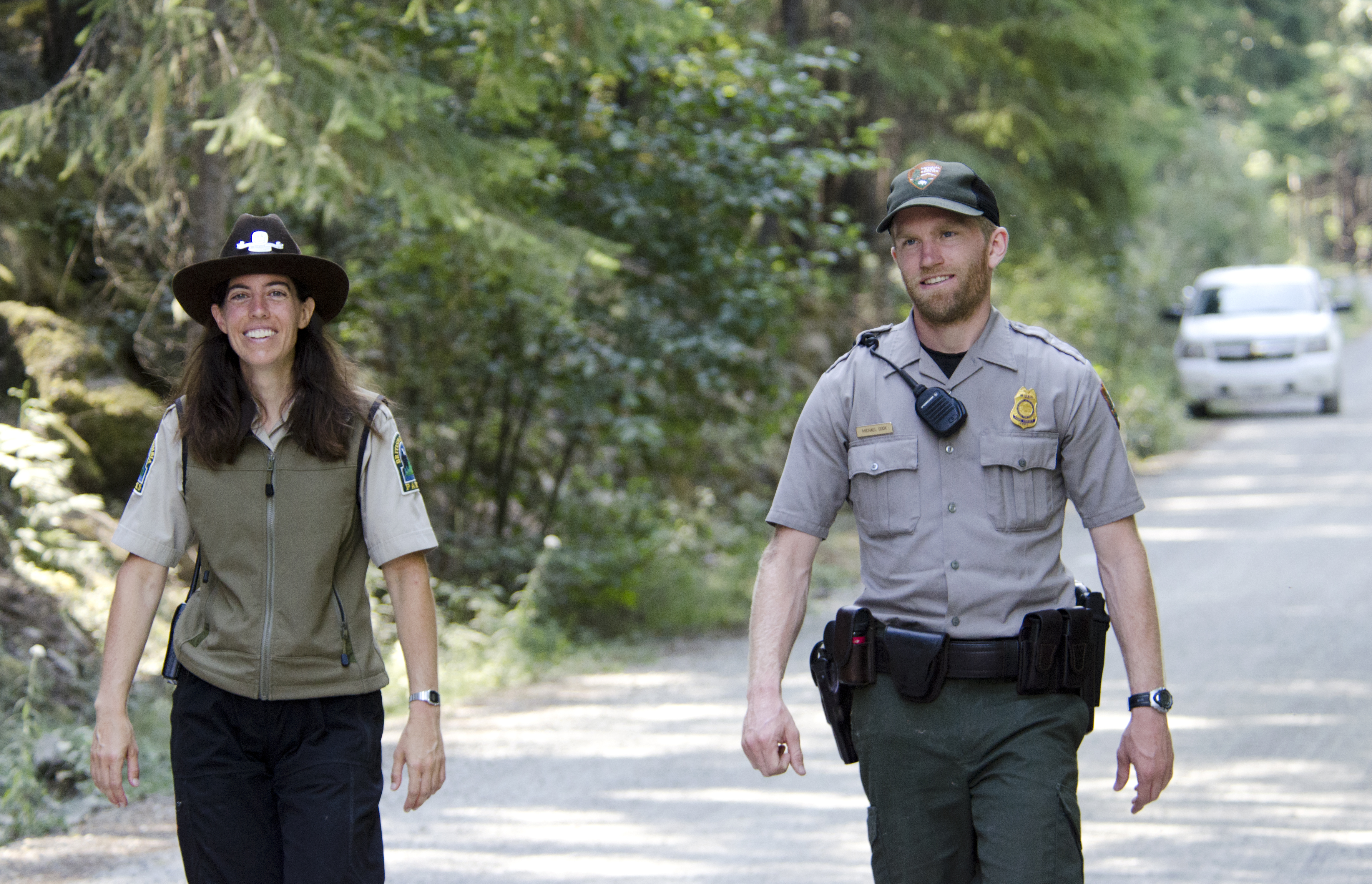 BC Parks Interpretive Ranger AJ and National Park Service Law Enforcement Ranger Mike work together to keep a bear out of the Hozomeen campground along the United States-Canada Border in Washington State and British Columbia.